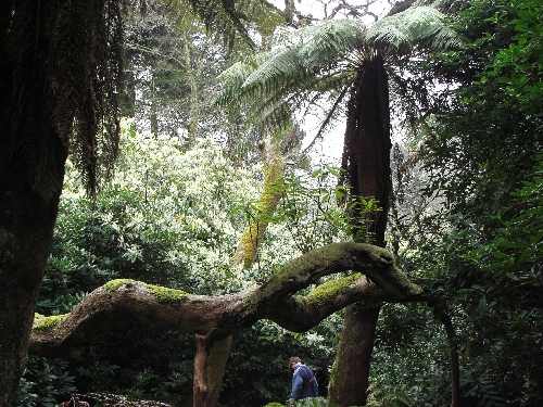 Author: Georg Asmussen Can also be found at: [1]